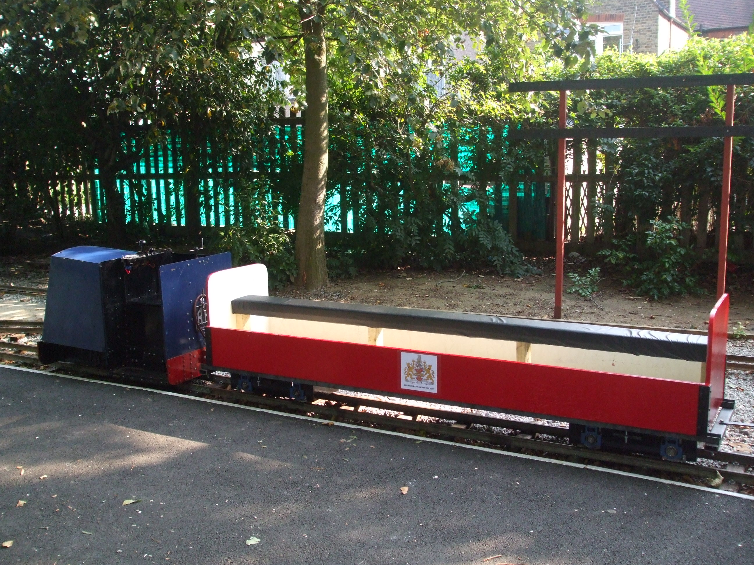 Park Gates station with the blue train, at the southern end of the Barking Park Light Railway (7.25" gauge).